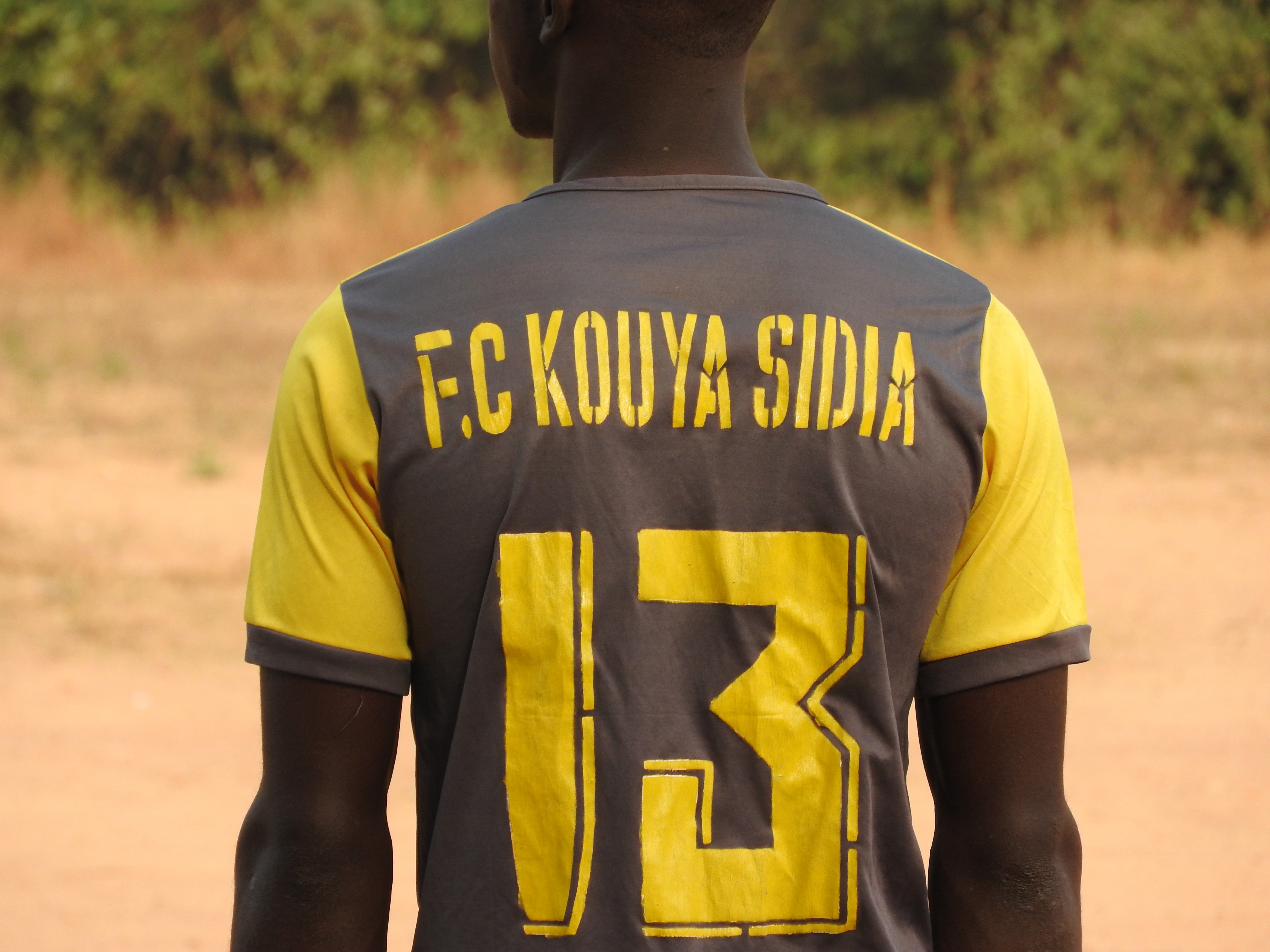 A player at a soccer practice. (2530a) FC Kouya Sidia Kouya Sidia is a new Wiki article because of the link to Women in Red